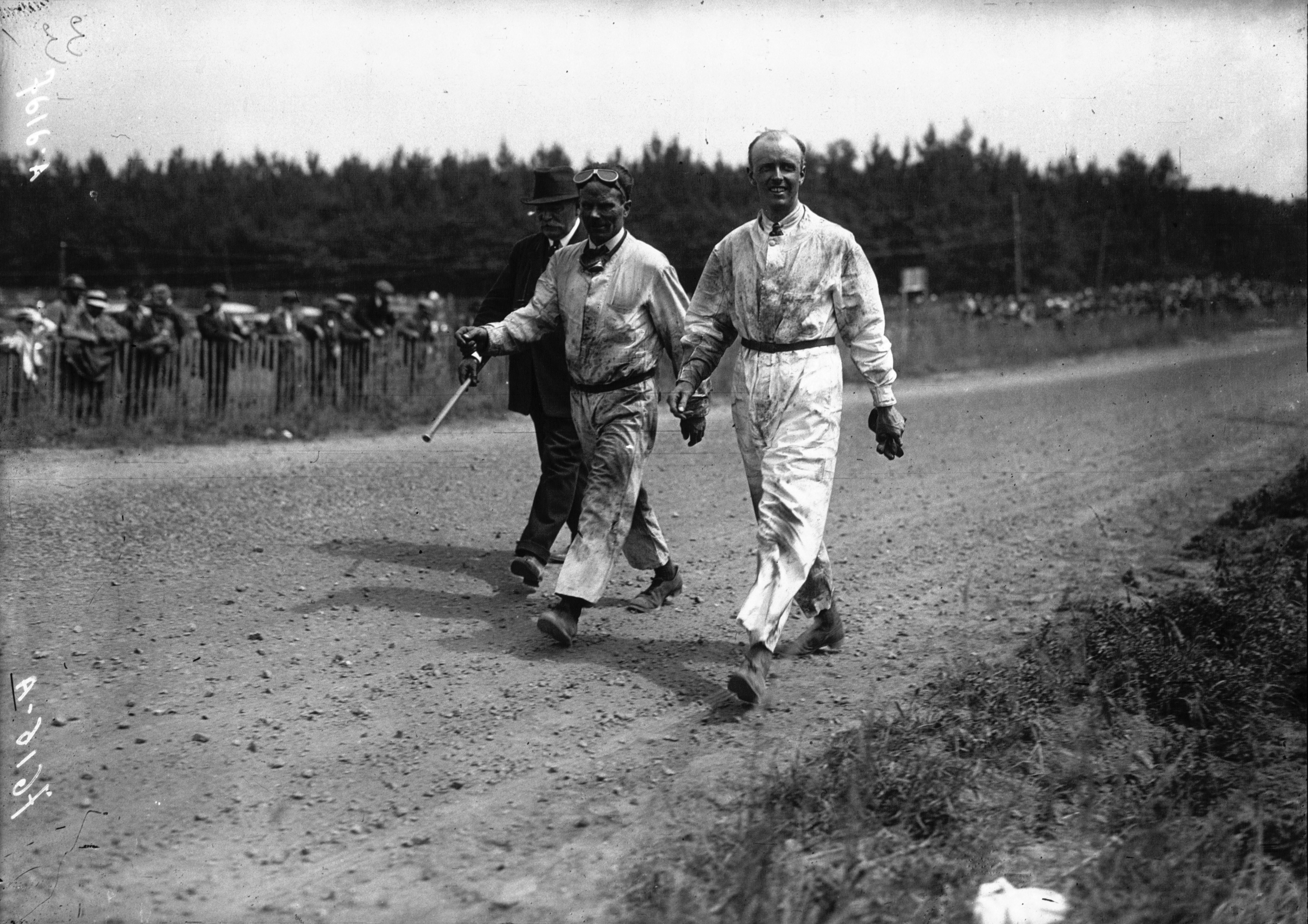 Henry Segrave and his mechanic at the 1923 French Grand Prix at Tours.